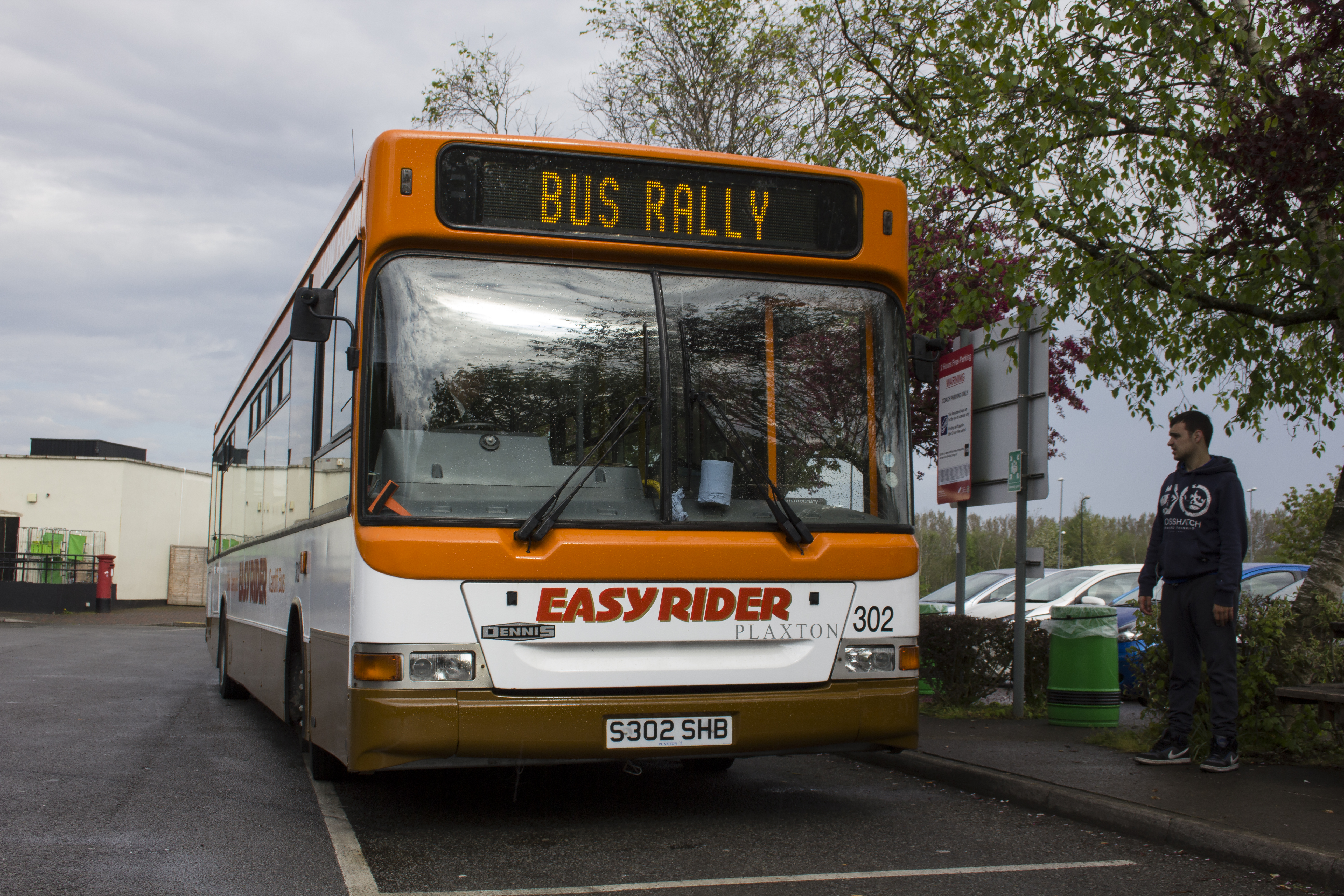 302 at Gordano Services, Bristol